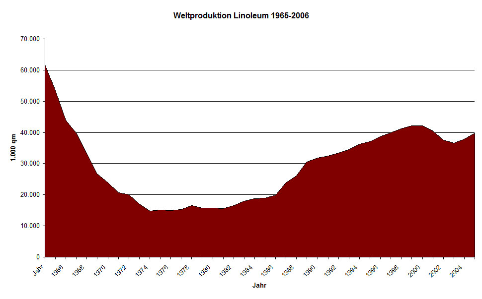 Worldwide Production of Linoleum from 1965 to 2006. From 1965 to 1977: without Ireland; from 1965 to 1978 without Greece: from 1990: incl. the former German Democratic Republic (DDR). Source: Karlheinz Müller, B2B Industriemarktforschung GmbH - Data collected for industrial use.